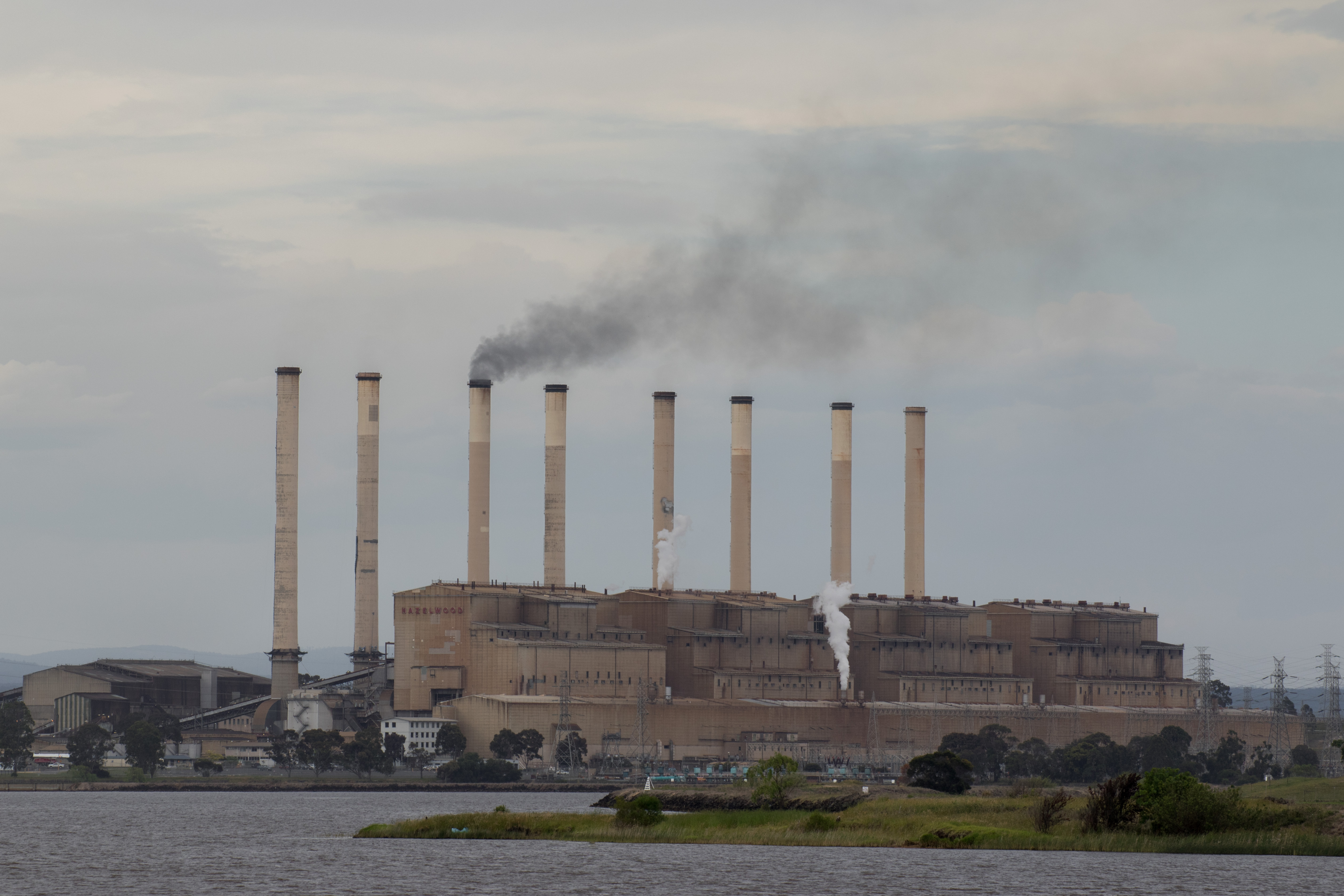 Unit number three of Hazelwood Power Station is coming back online after having been shut down for planned maintenance. Steam (the white plumes coming from the building that houses Units three and four, and also the corresponding area on the turbine floor lower down) is being vented in order to move steam through the pipes and raise the temperature of various systems. The Electrostatic Precipitator (ESP) that removes particulate matter from the flue gas going up Unit three's chimney is not activated, resulting in a dirty plume of black smoke. This plume can last for eight hours or so before the unit becomes operational and the amount of visible smoke is greatly reduced. Note that all units were in operation at this time. Their emissions are not visible in the light of dusk with the overcast sky, but can become visible given the right weather conditions.